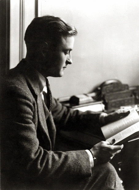 Black-and-white photographic portrait of writer F. Scott Fitzgerald. Courtesy of the Minnesota Historical Society.